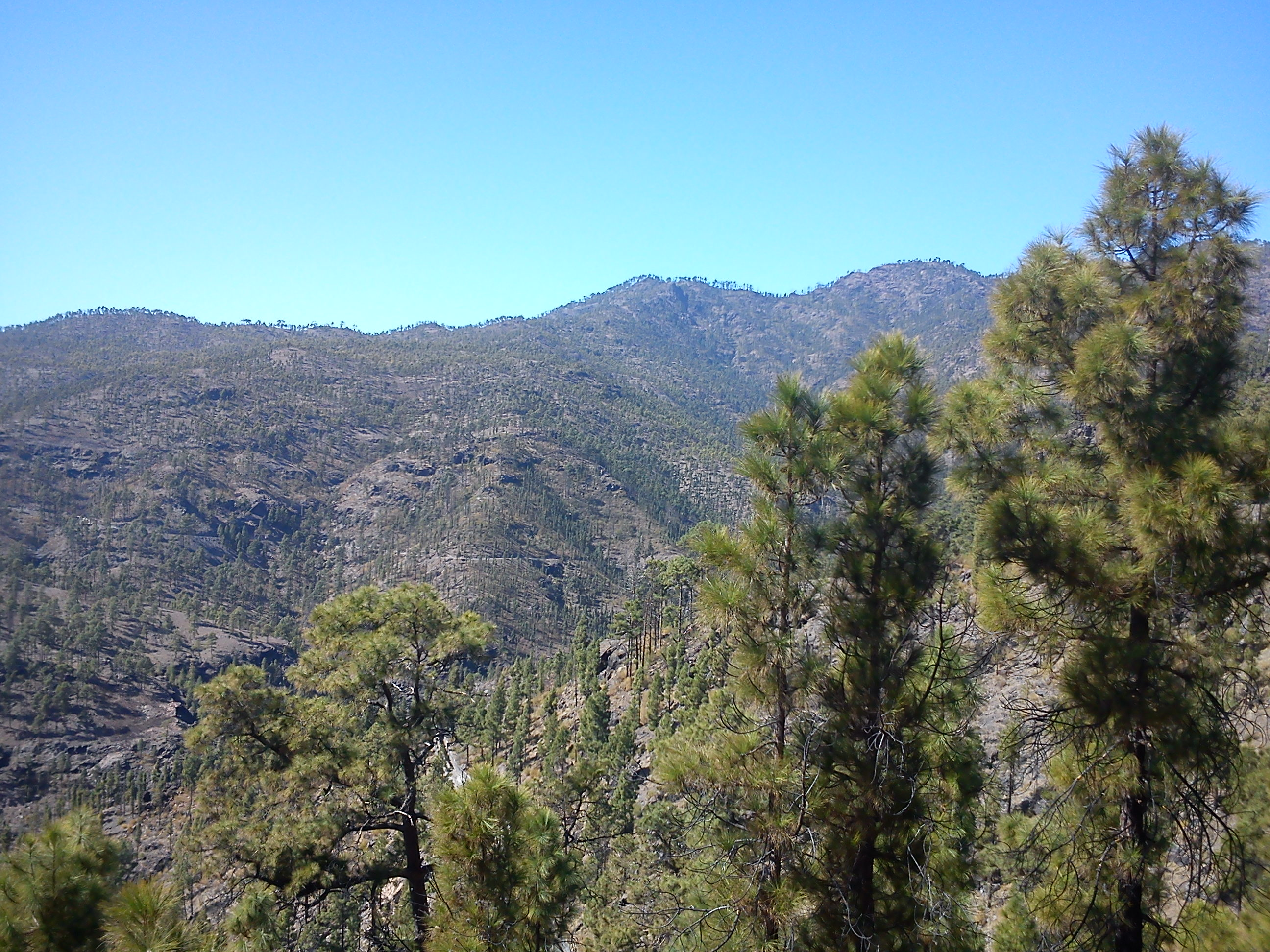 Canarian pines (Pinus canariensis), Gran Canaria